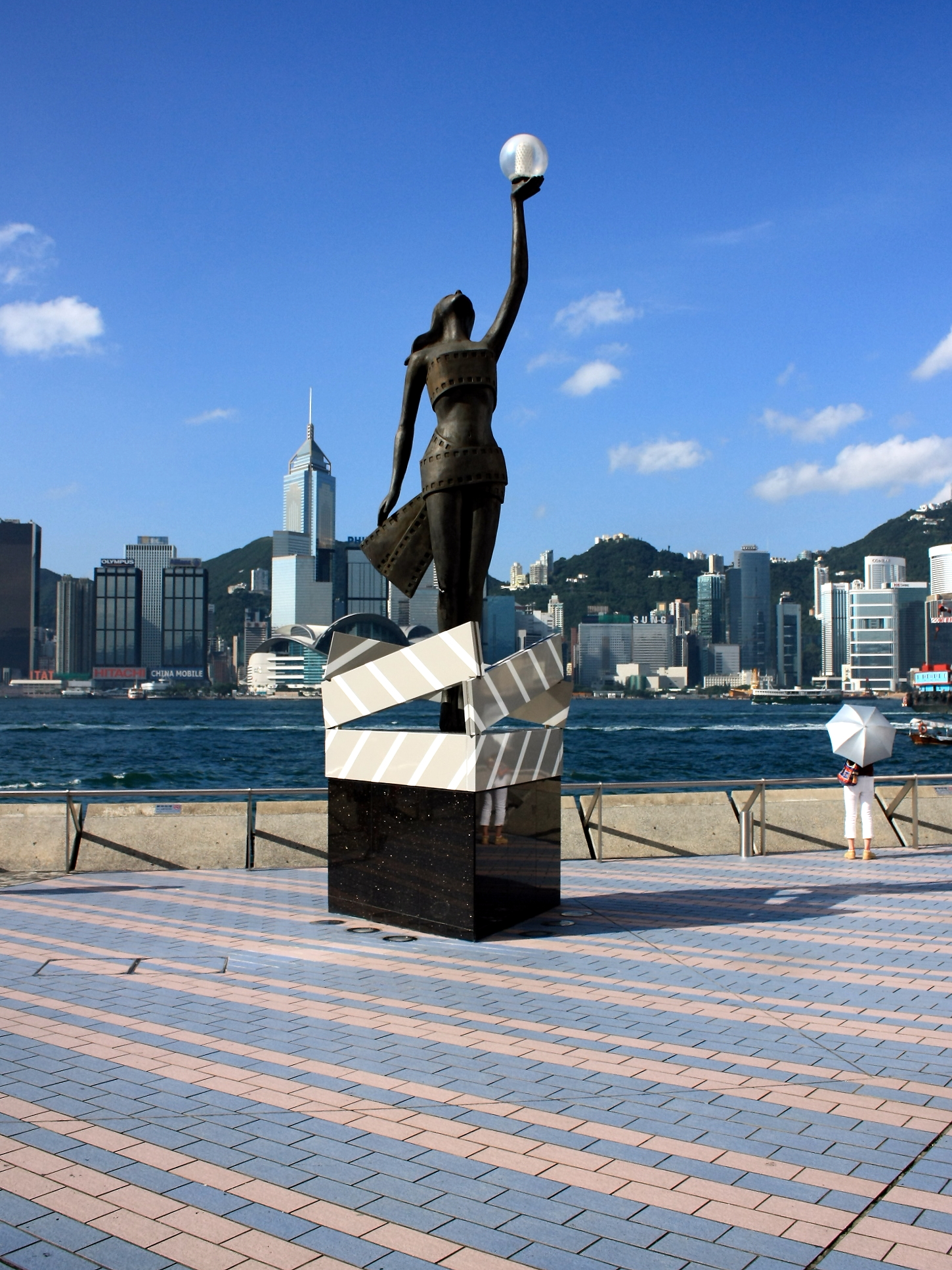 Avenue of Stars Statue 香港星光大道入口設置的香港電影金像獎巨型銅像